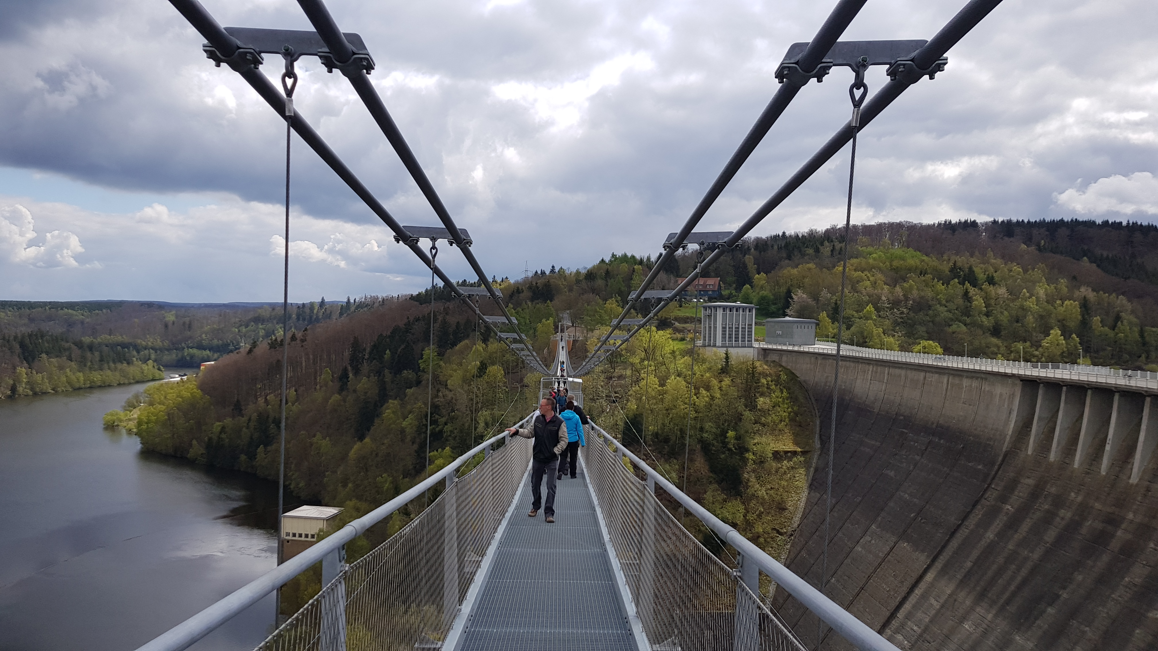 World Record Suspension bridge